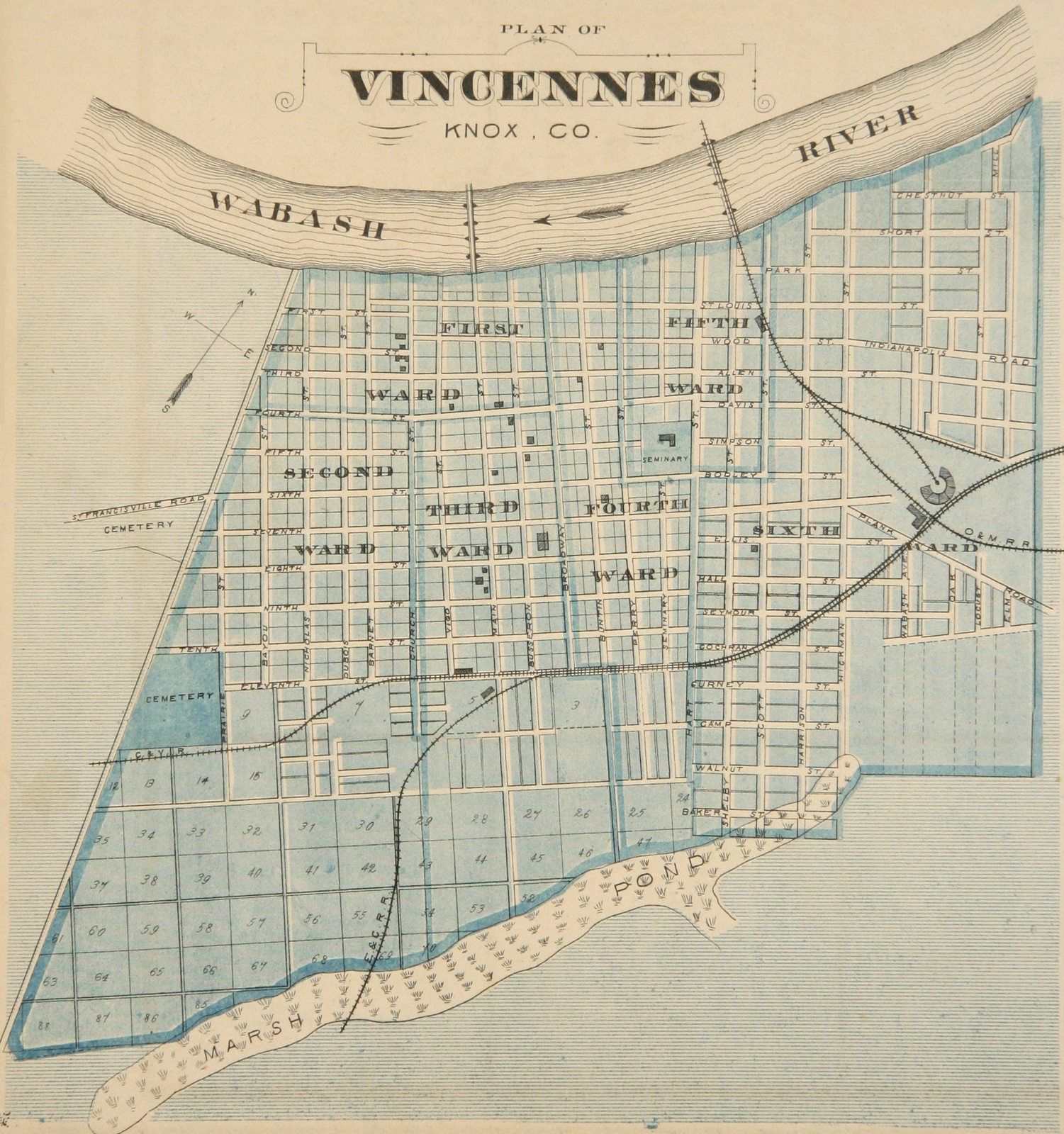 Map of Vincennes, Indiana, United States